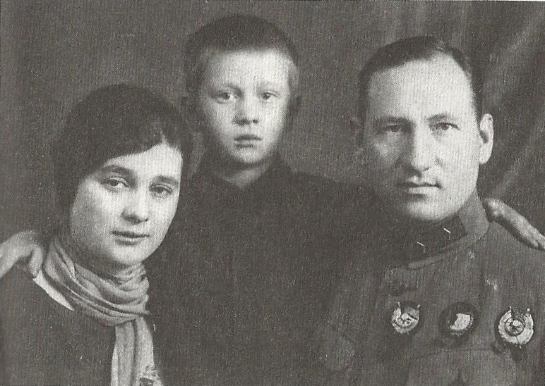 Mikhail Efremov's family